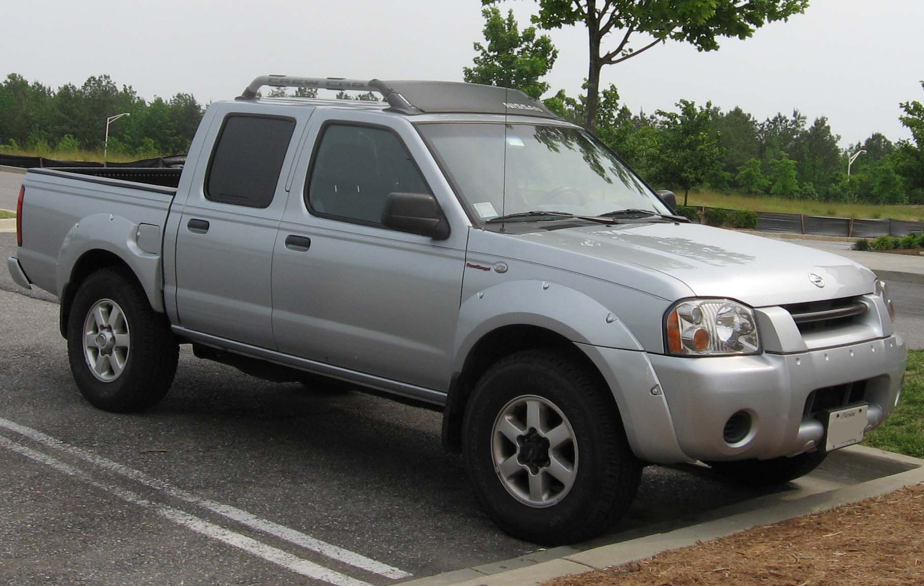 2001-2004 Nissan Frontier photographed in USA.